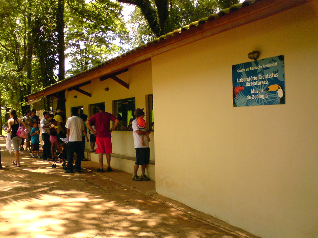 Museum of Zoology - Parque Zoológigo Municipal Quinzinho de Barros at Sorocaba - SP - Brazil